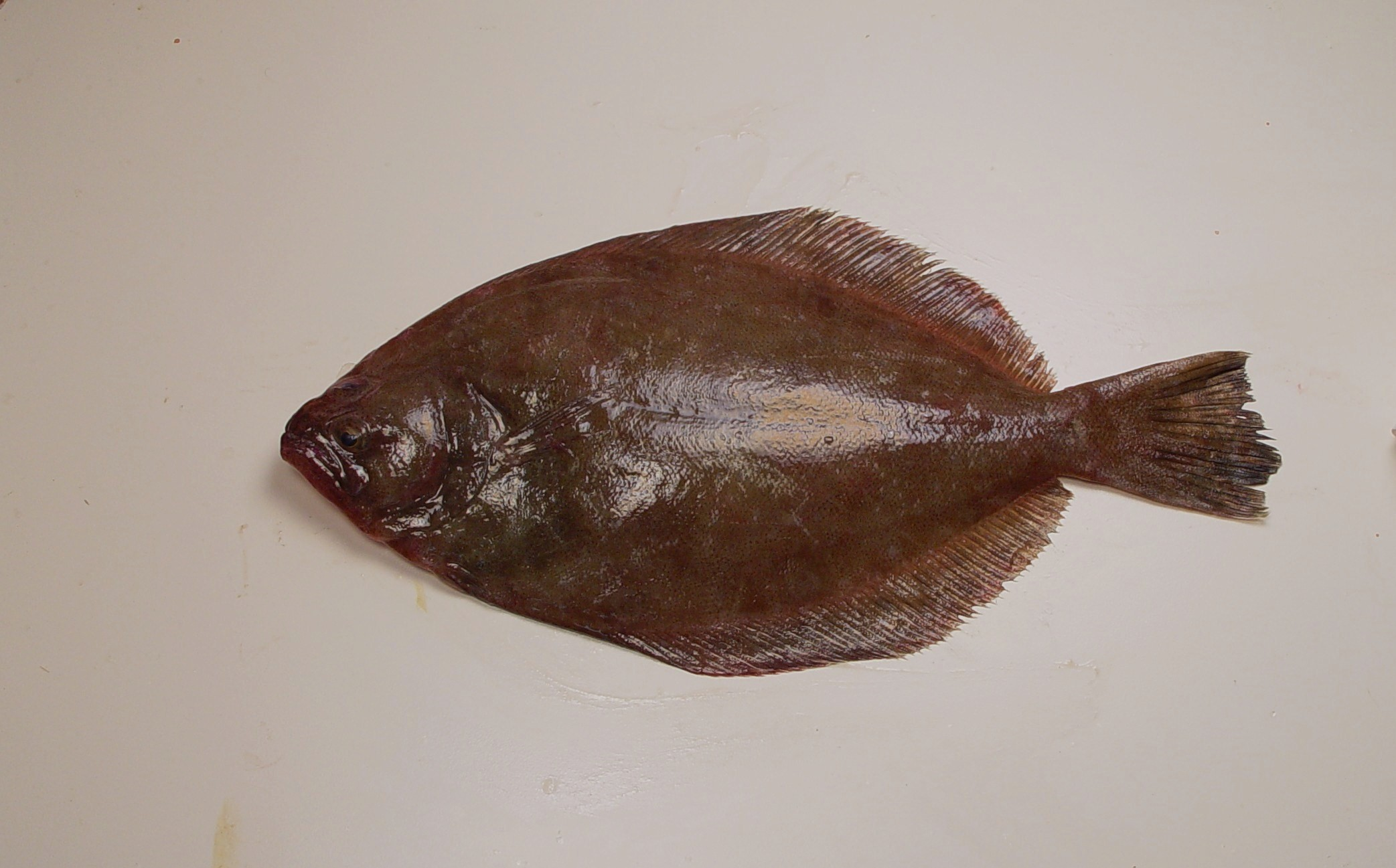 Southern flounder from the Gulf of Mexico